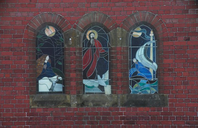 Stained glass window in a gable wall of St Peter's church, Commondale, North Yorkshire